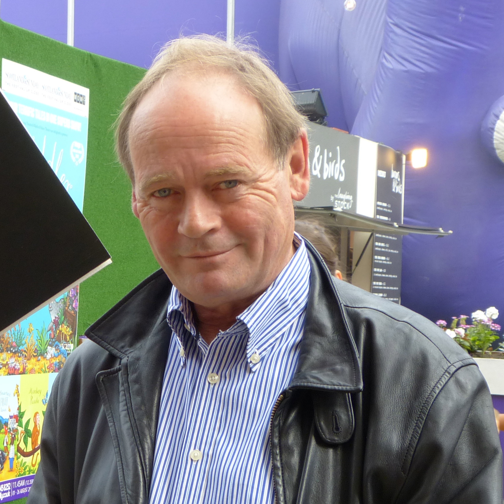 John Lloyd with placard at Secret Comedy Podcast